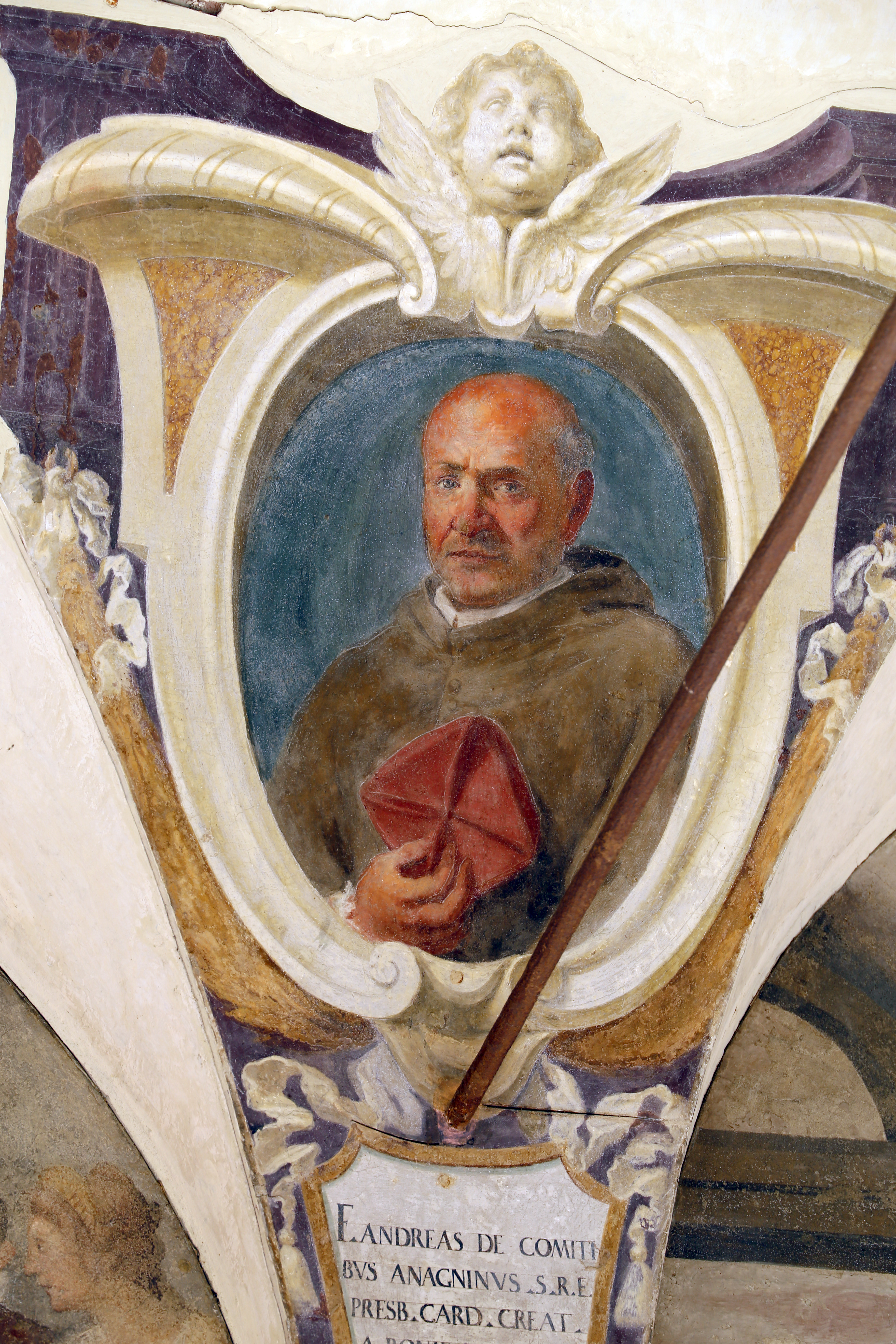 Ognissanti (Florence) - Cloister - Franciscan Personalities by Fabrizio Boschi and workshop